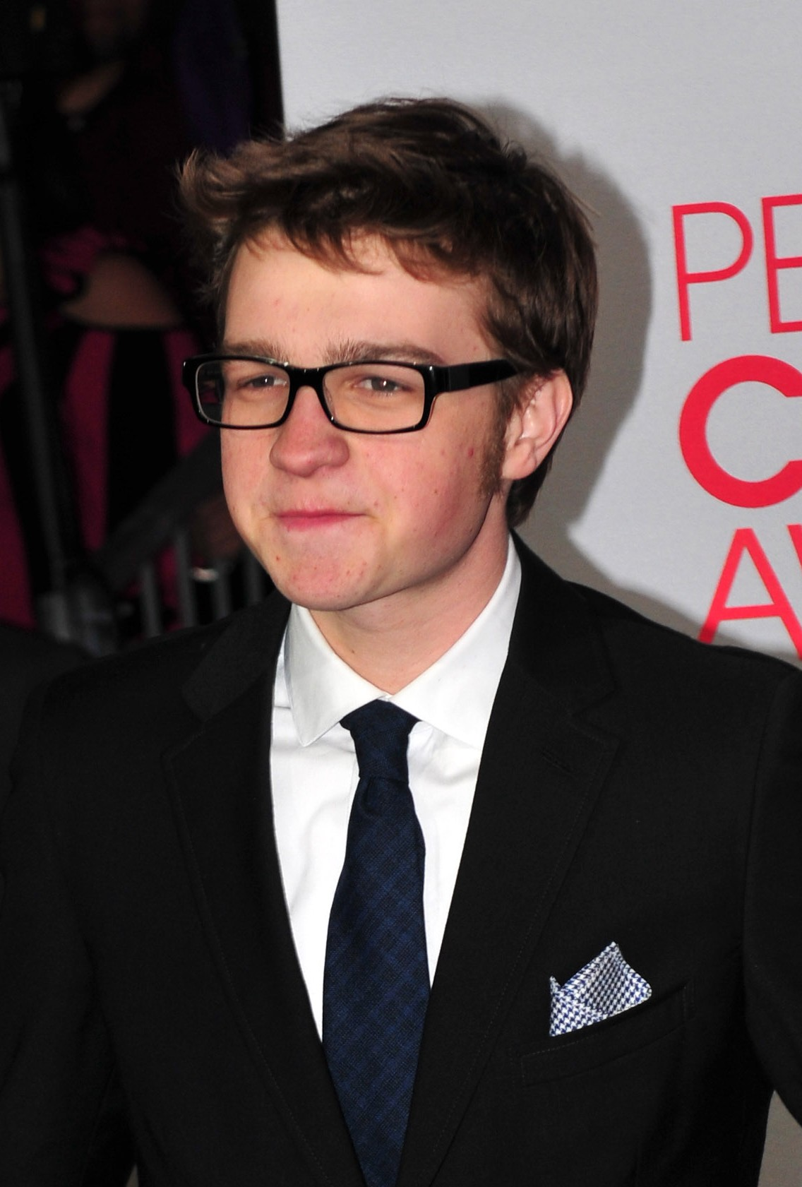 Angus T. Jones on the red carpet at the 38th People's Choice Awards on January 11, 2012, at the Nokia Theatre in Los Angeles, California.